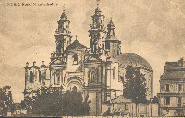 Cathedral in the city of Pinsk. Postcard 1939.